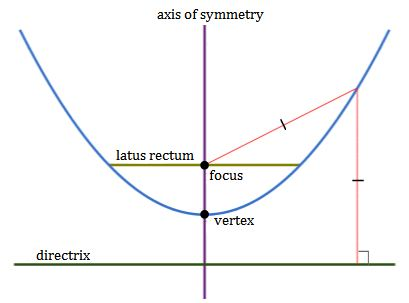 Template:Different Parts of a Parabola